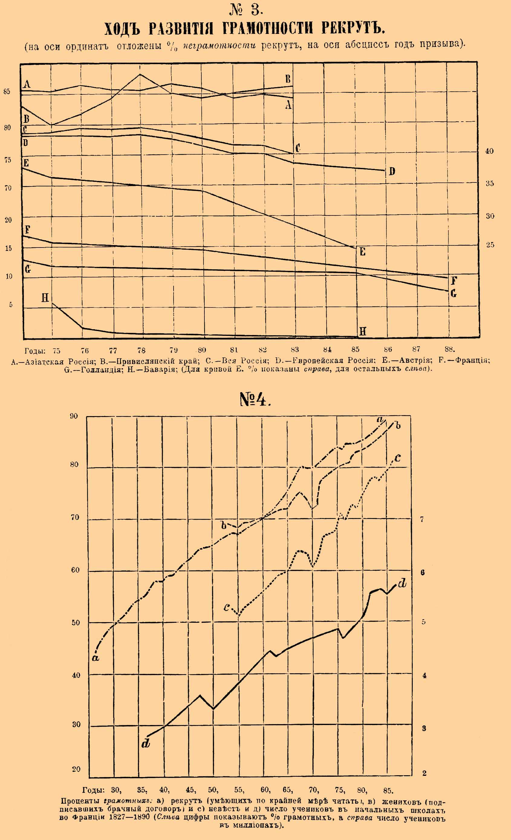 Illustration from Brockhaus and Efron Encyclopedic Dictionary (1890—1907)